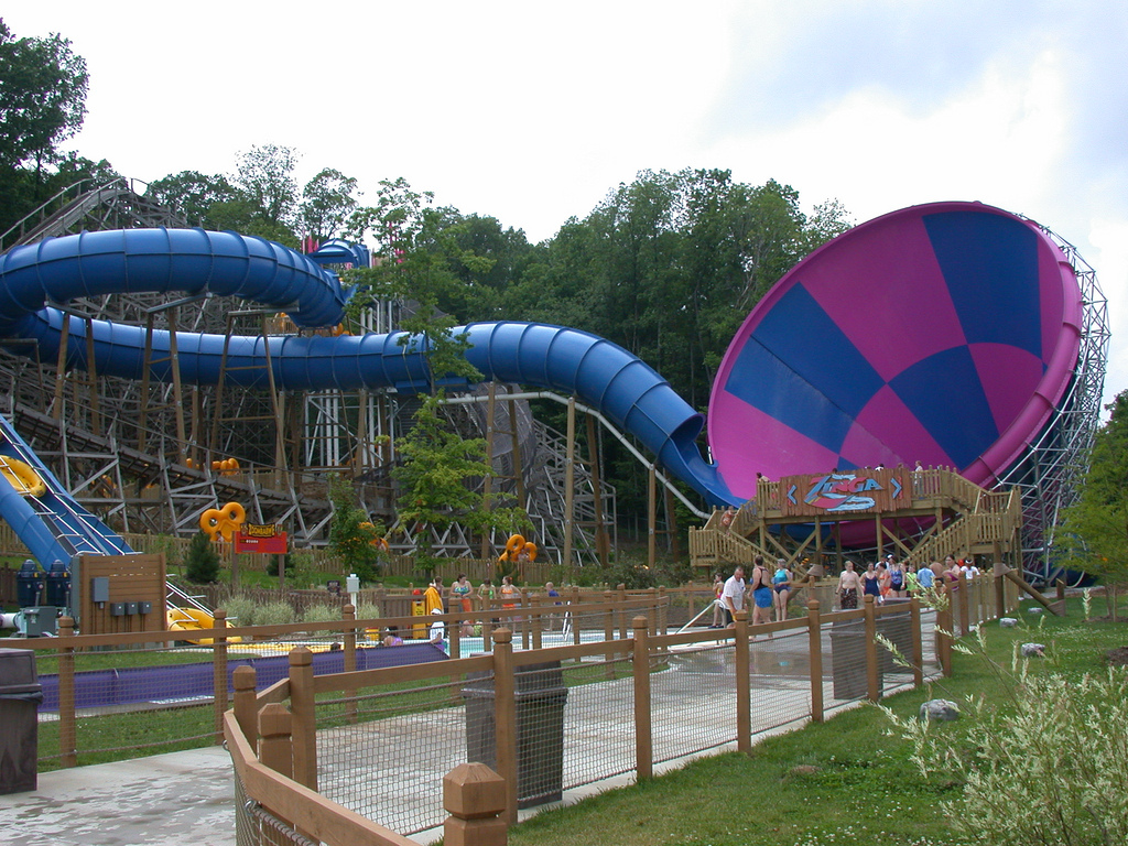 Zinga.